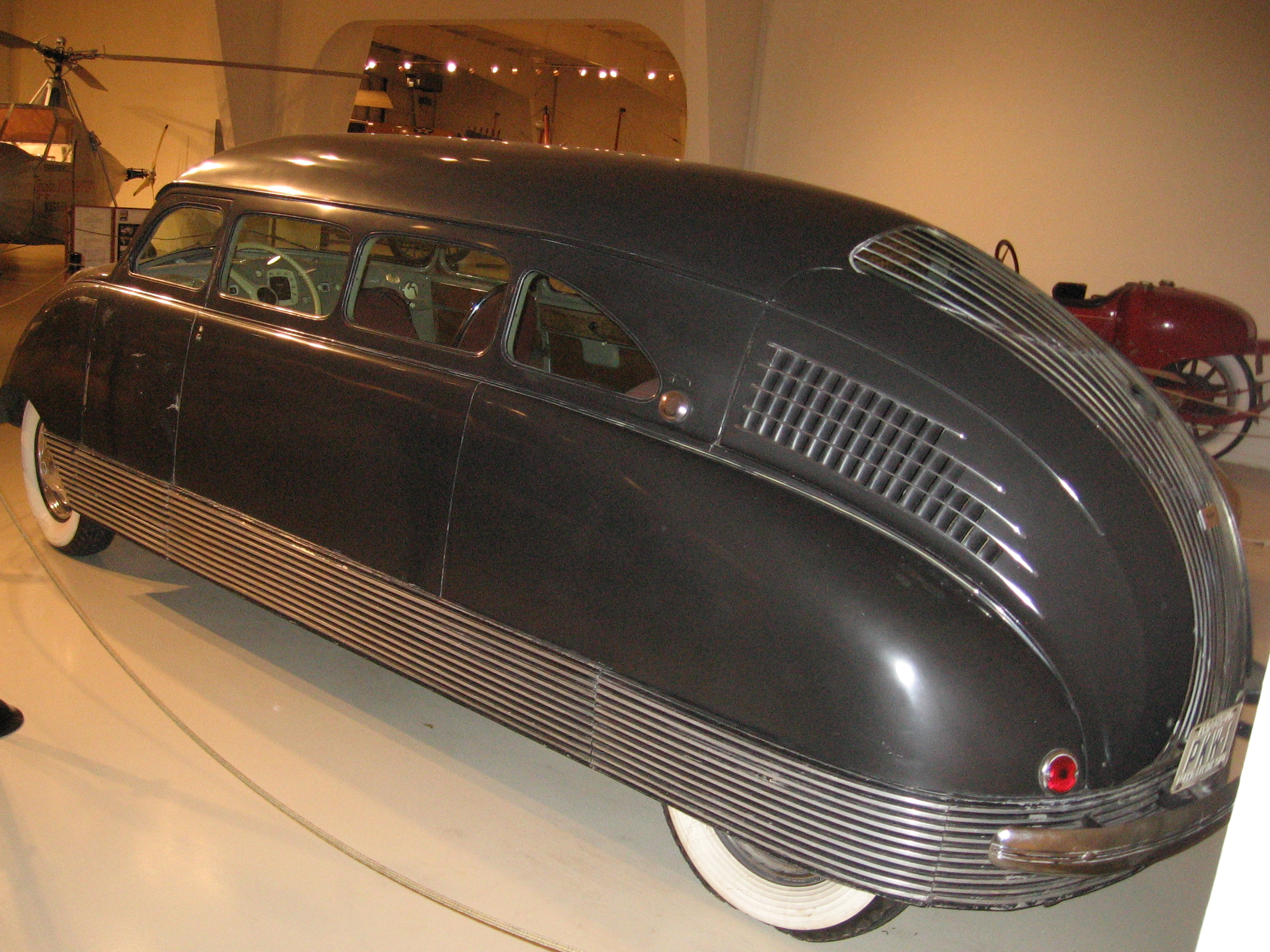 Photo of 1935 Stout Scarab at Owls Head Transporation Museum in Owls Head Maine. Taken 2 April 2007